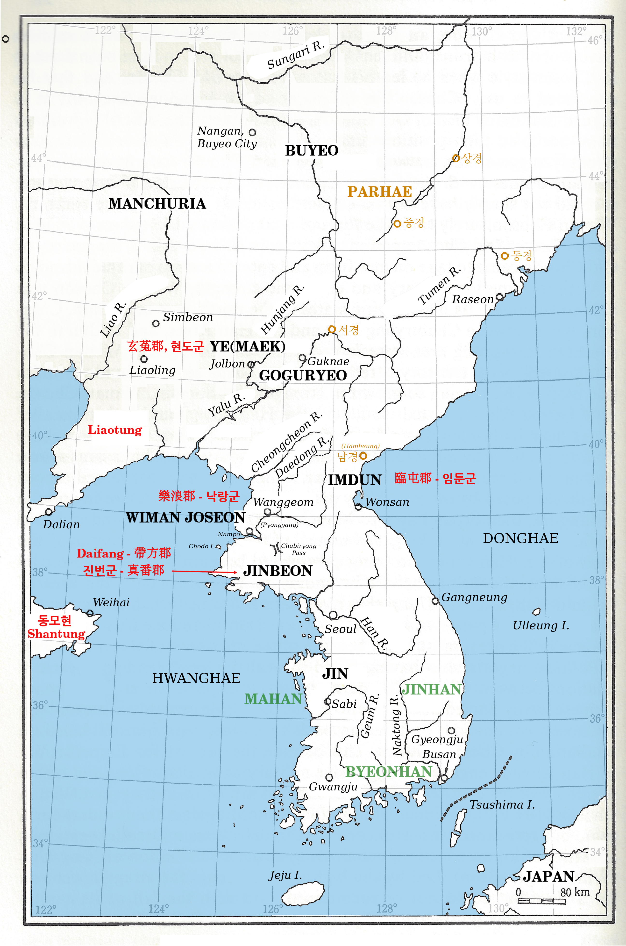 Some country and places that were existing in the old ancient times. It is not implyied they were existing together at the same time.